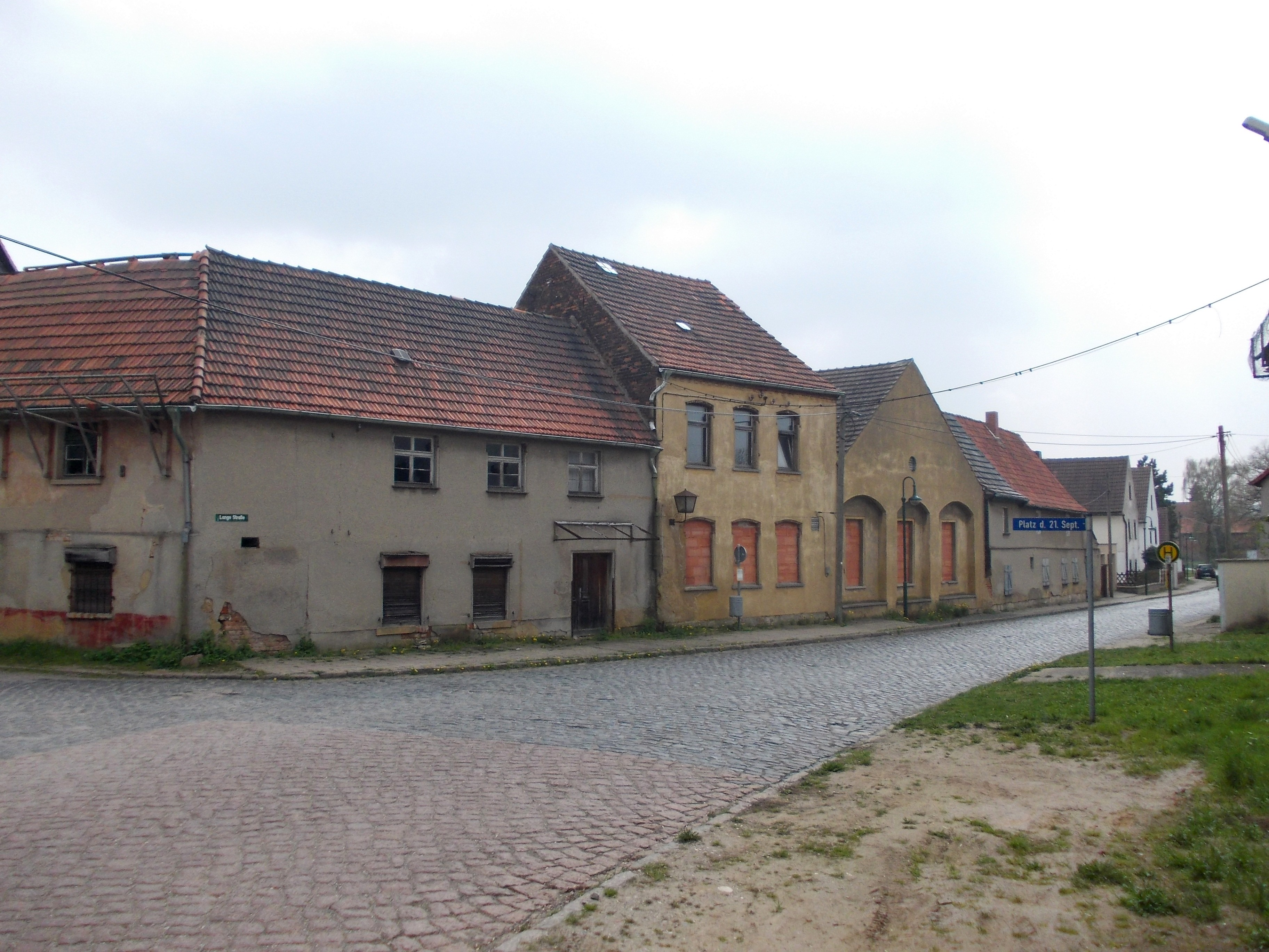 Lange Strasse/Platz des 21. September in Kreischau (Lützen, district: Burgenlandkreis, Saxony-Anhalt)